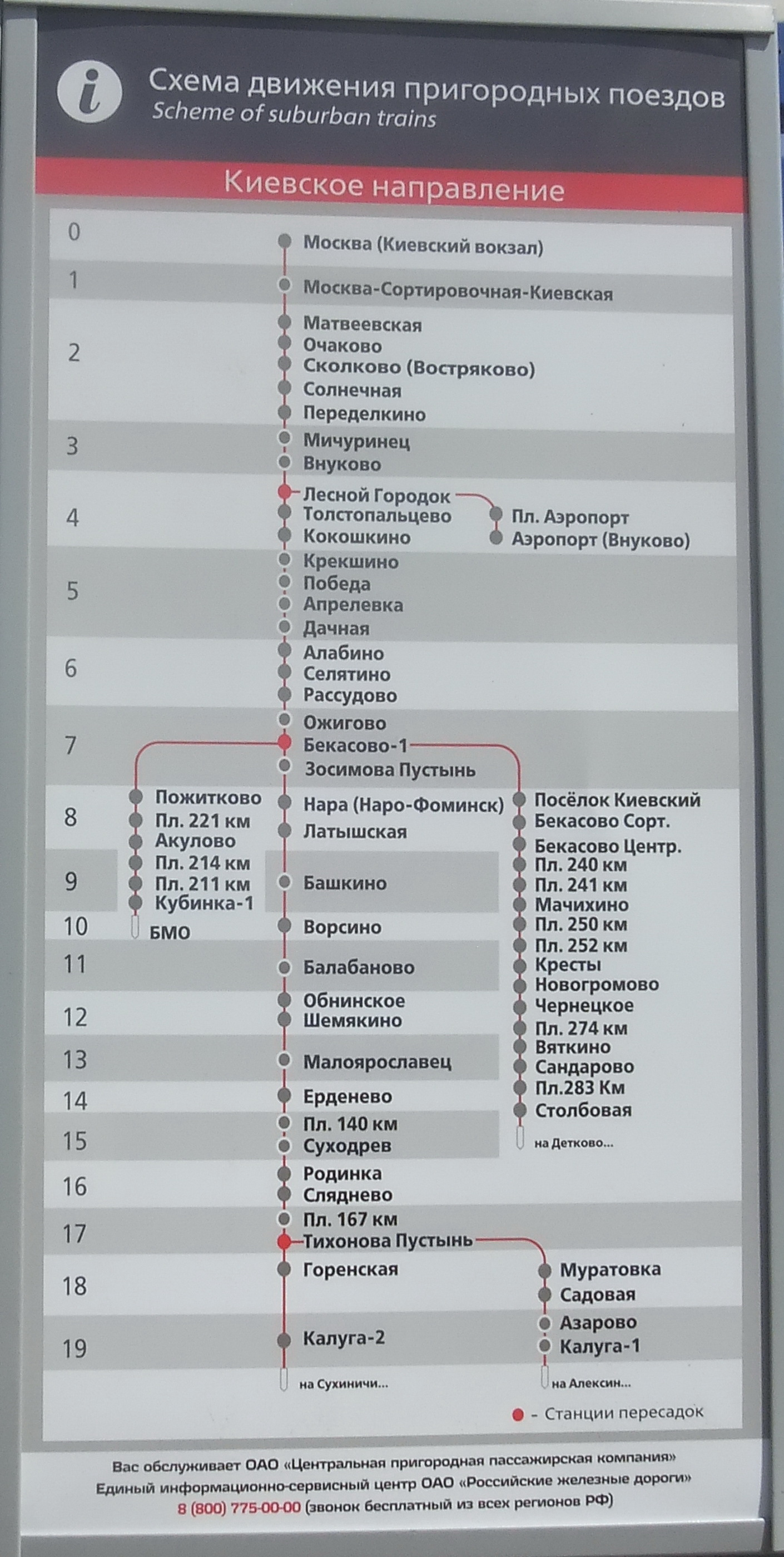 2013 Kievskoe + BMO railway direction scheme